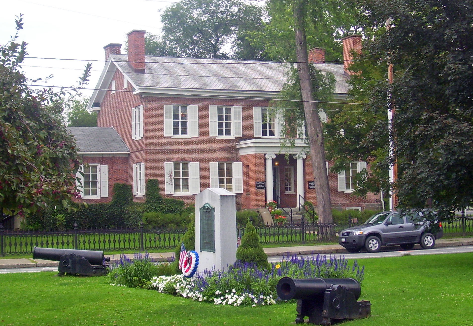 Main square in downtown Kinderhook, NY, USA, part of Kinderhook Village District